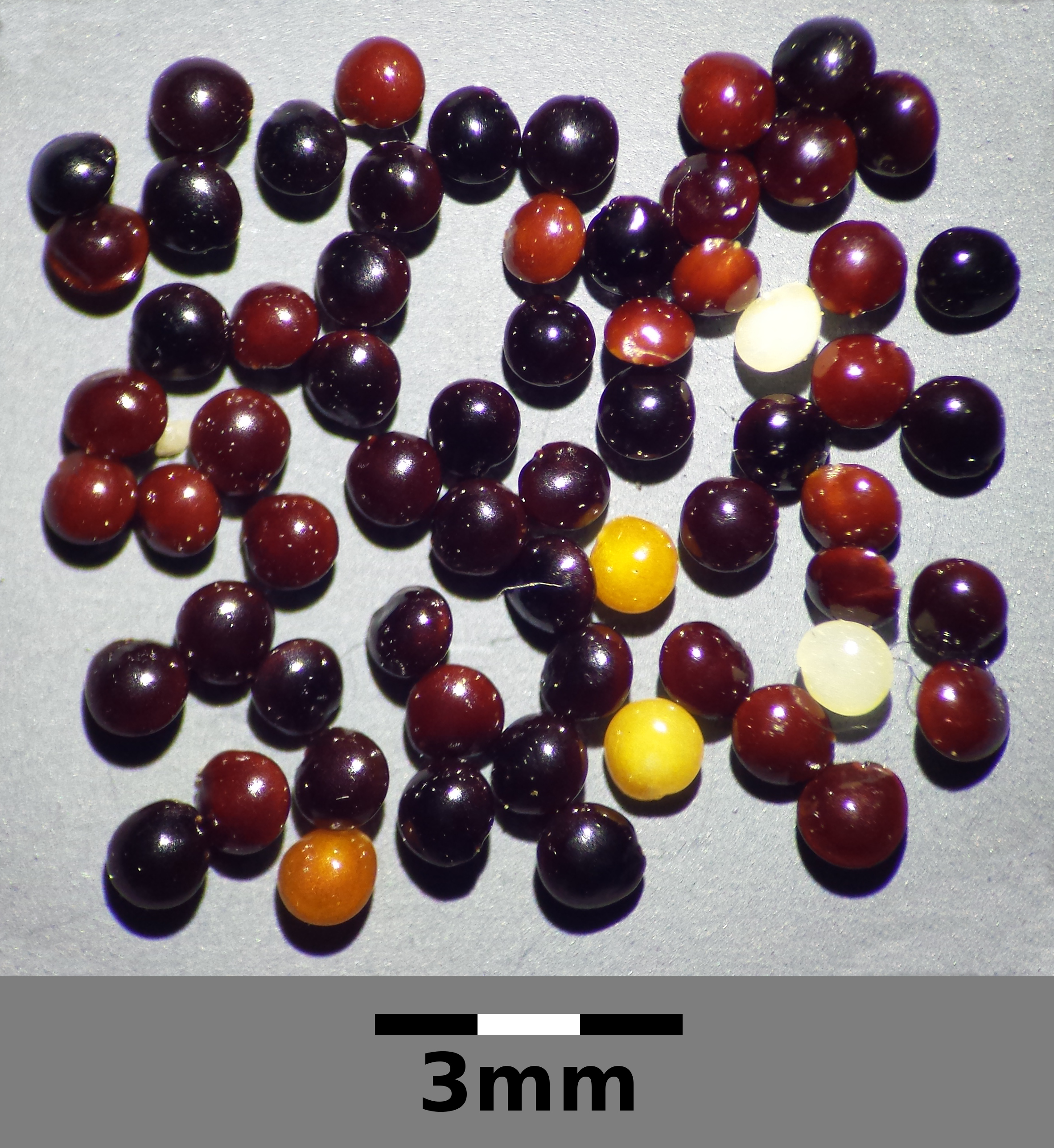 Seeds Taxon: Amaranthus albus (sensu Fischer et al. EfÖLS 2008 ISBN 978-3-85474-187-9) Location: Floridsdorf rail station, Vienna-Floridsdorf - ca. 160 m a.s.l. Habitat: ruderal area